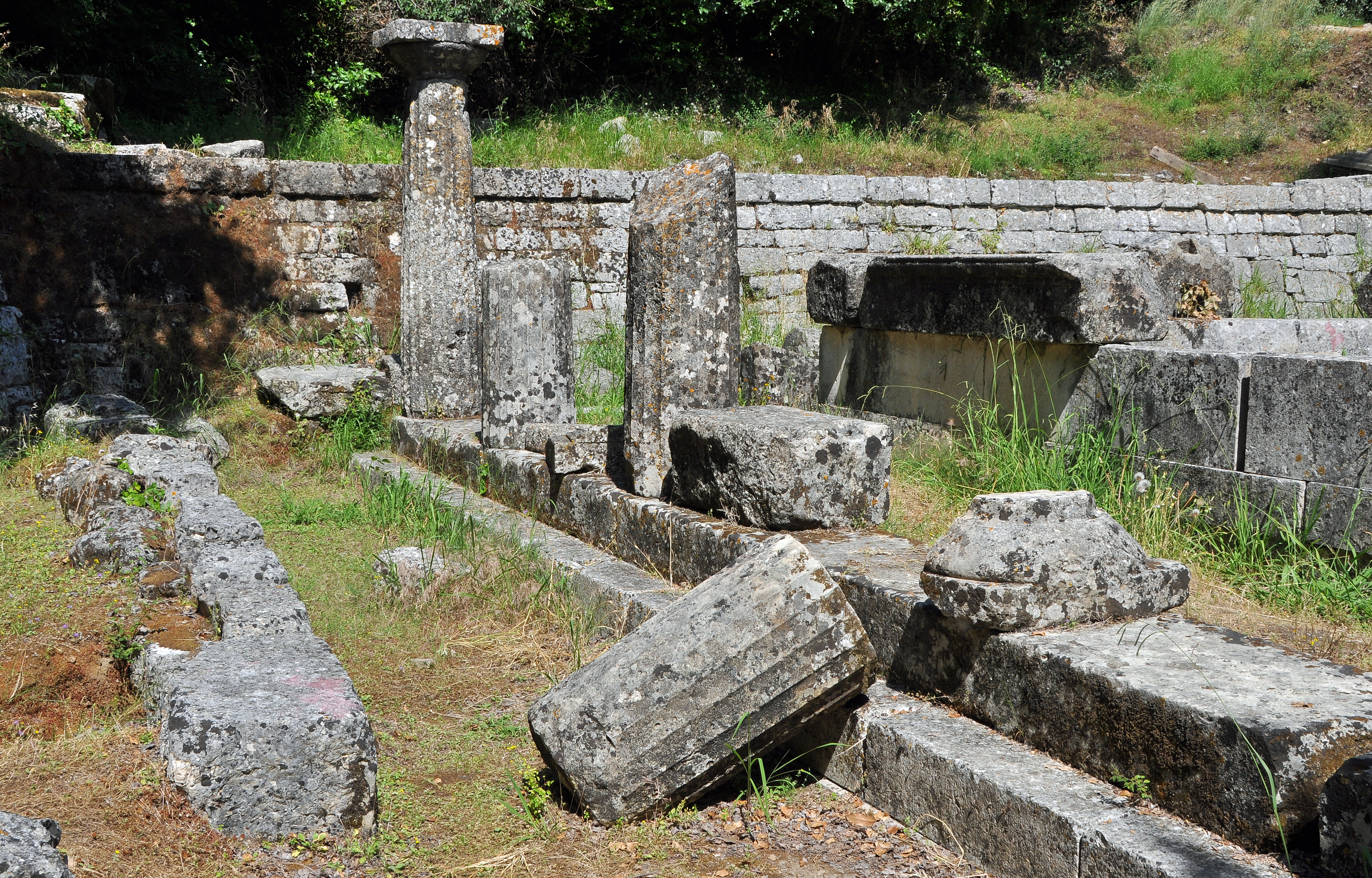 Corfu (Greece): former royal estate 'Mon Repos' - ruins of an ancient temple